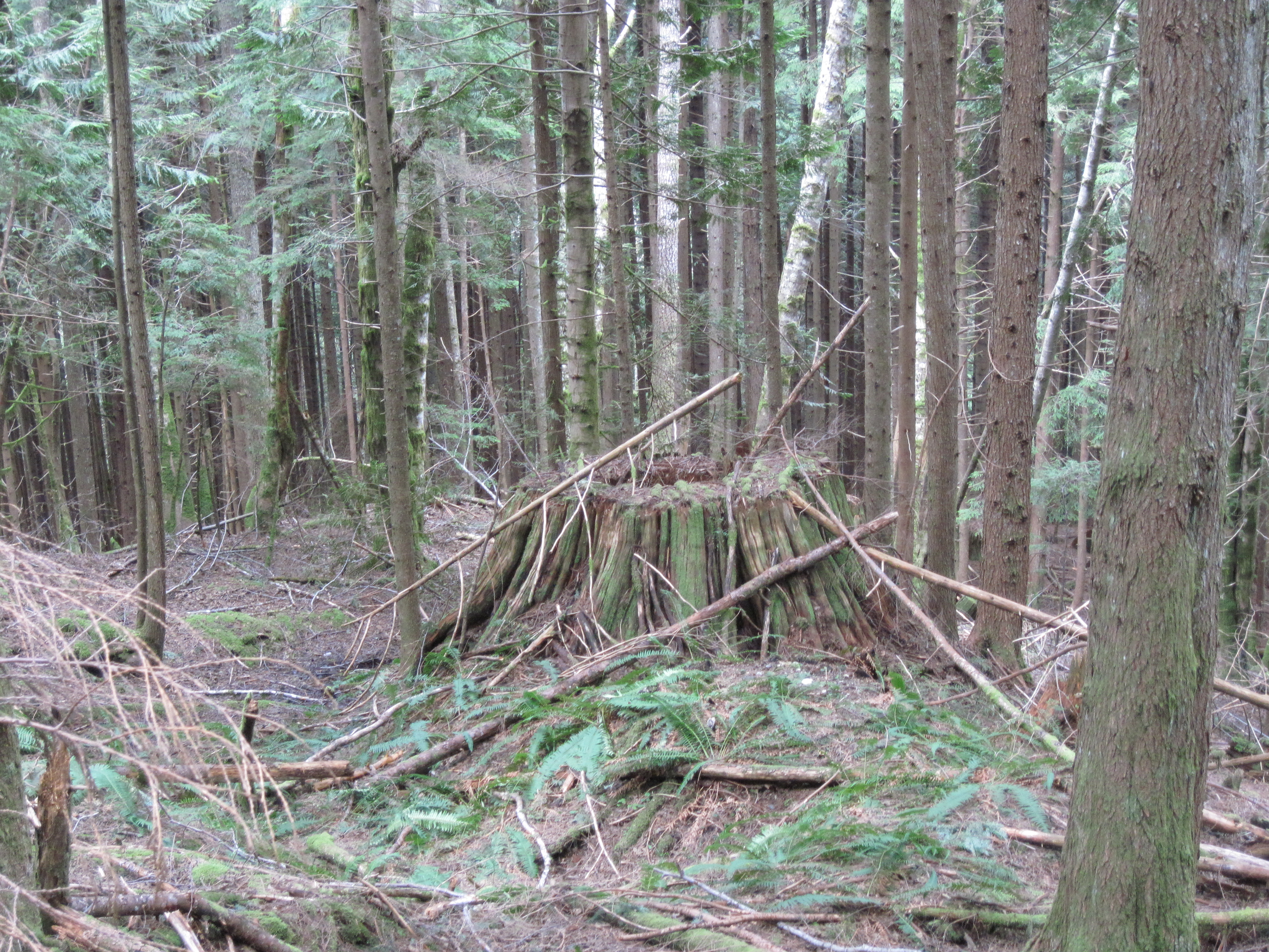 Regrowth of logged forest in Mount Baker-Snoqualmie National Forest